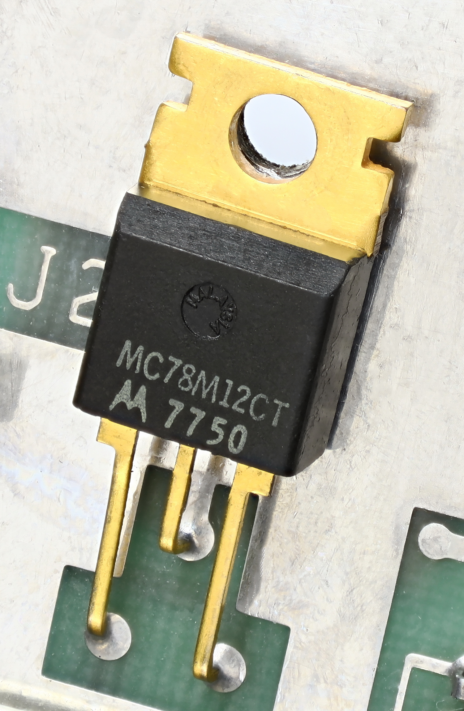 A LM7812 three pin 12 VDC voltage regulator integrated circuit.